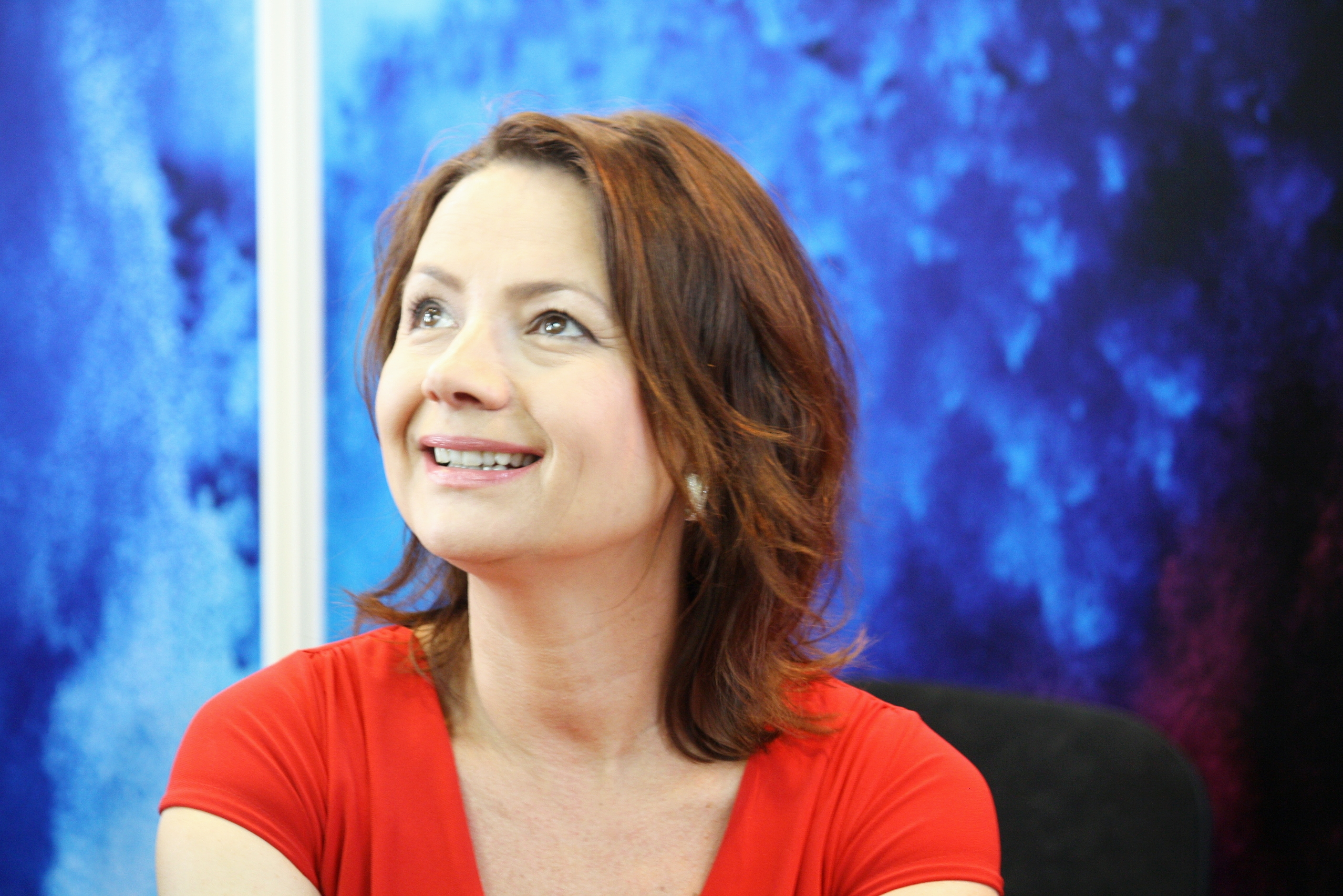 Česky: Svět knihy 2013 - Jolana Voldánová Personality rights warning This work depicts one or more identifiable persons. The use of depictions of living or deceased persons may be restricted by laws regarding personality rights. The extent of these restrictions depends on jurisdiction. Personality rights restrictions apply independently of copyright. Before using this content, please ensure that the intended use does not infringe any personality rights under applicable laws. You are solely responsible for ensuring that you do not infringe someone else's personality rights. See our general disclaimer.